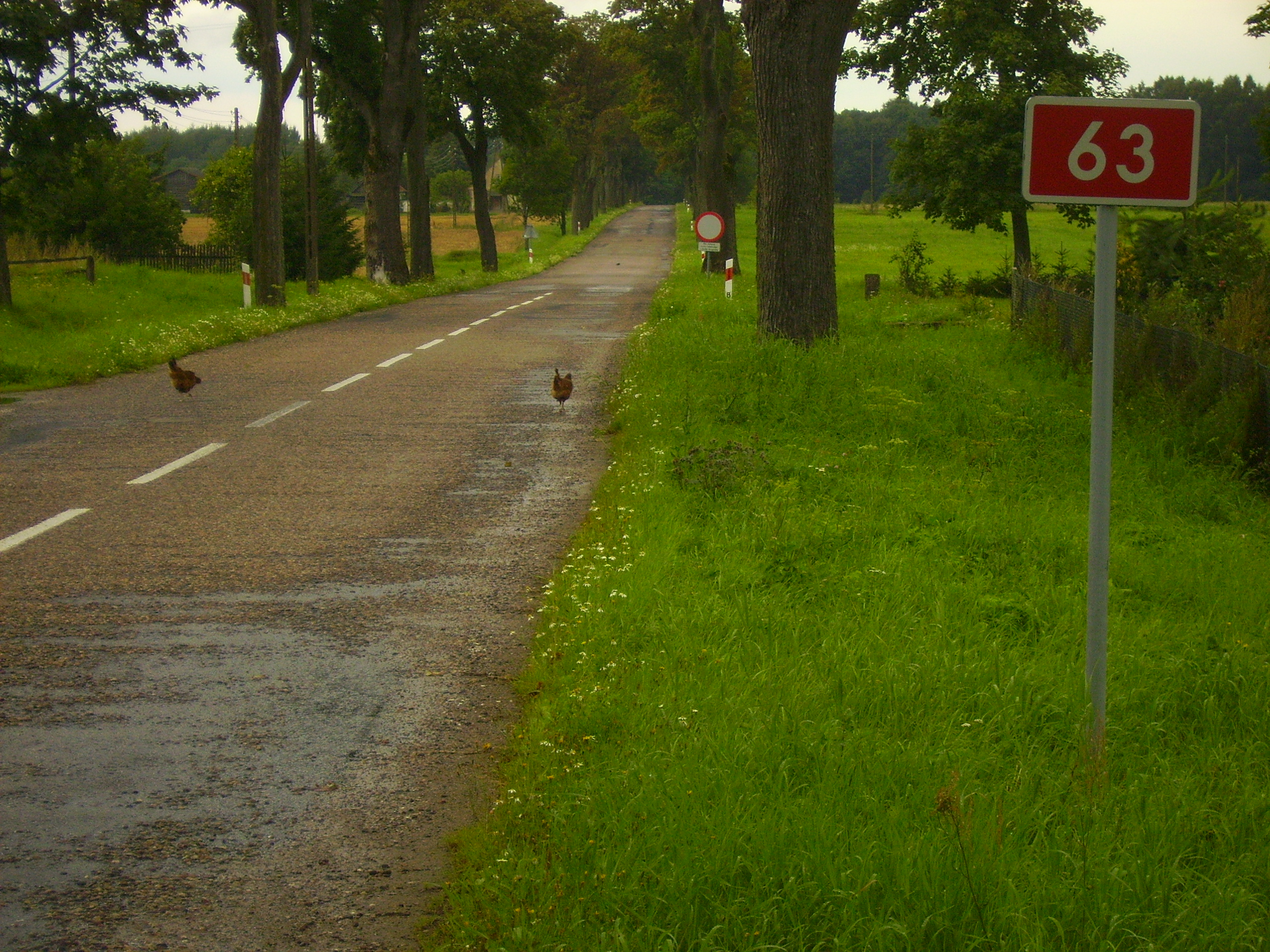 End of national road 63, Polish Side.